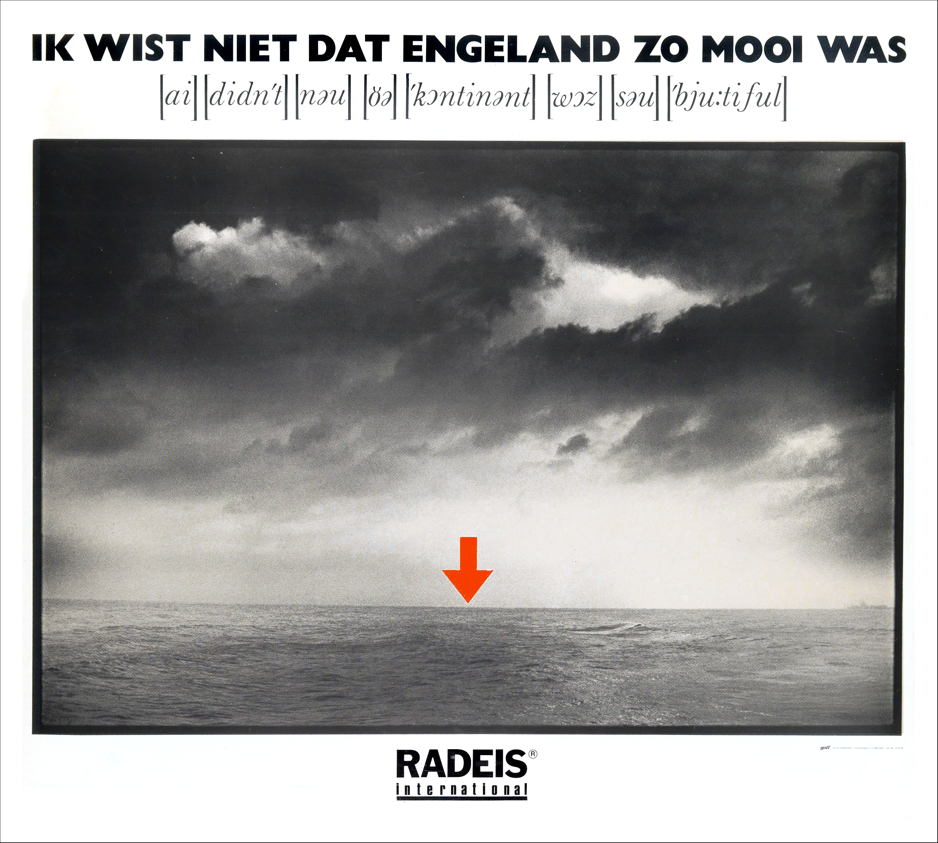 Poster performance Theater Radeis: 'I did not know that the continent was so beautiful' (1980). Photo and design Michiel Hendryckx - Ghent